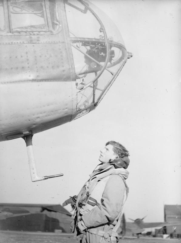 Royal Air Force 1939-1945- Bomber Command A student observer contemplates his 'office' in the nose of a Hampden before embarking on an early-morning flight at No 5 Air Observers School at Jurby on the Isle of Man, January 1942.